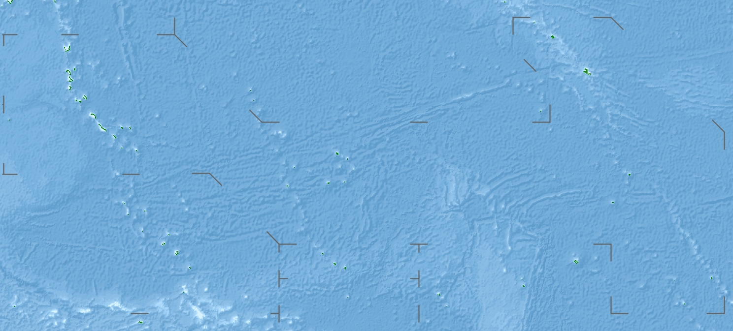 Location map of Kiribati Equirectangular projection. Geographic limits of the map: N: 6° N S: 13° S W: 169° E E: 149° W Made with Natural Earth. Free vector and raster map data @ . Sea-Borders from the political map made by NNW